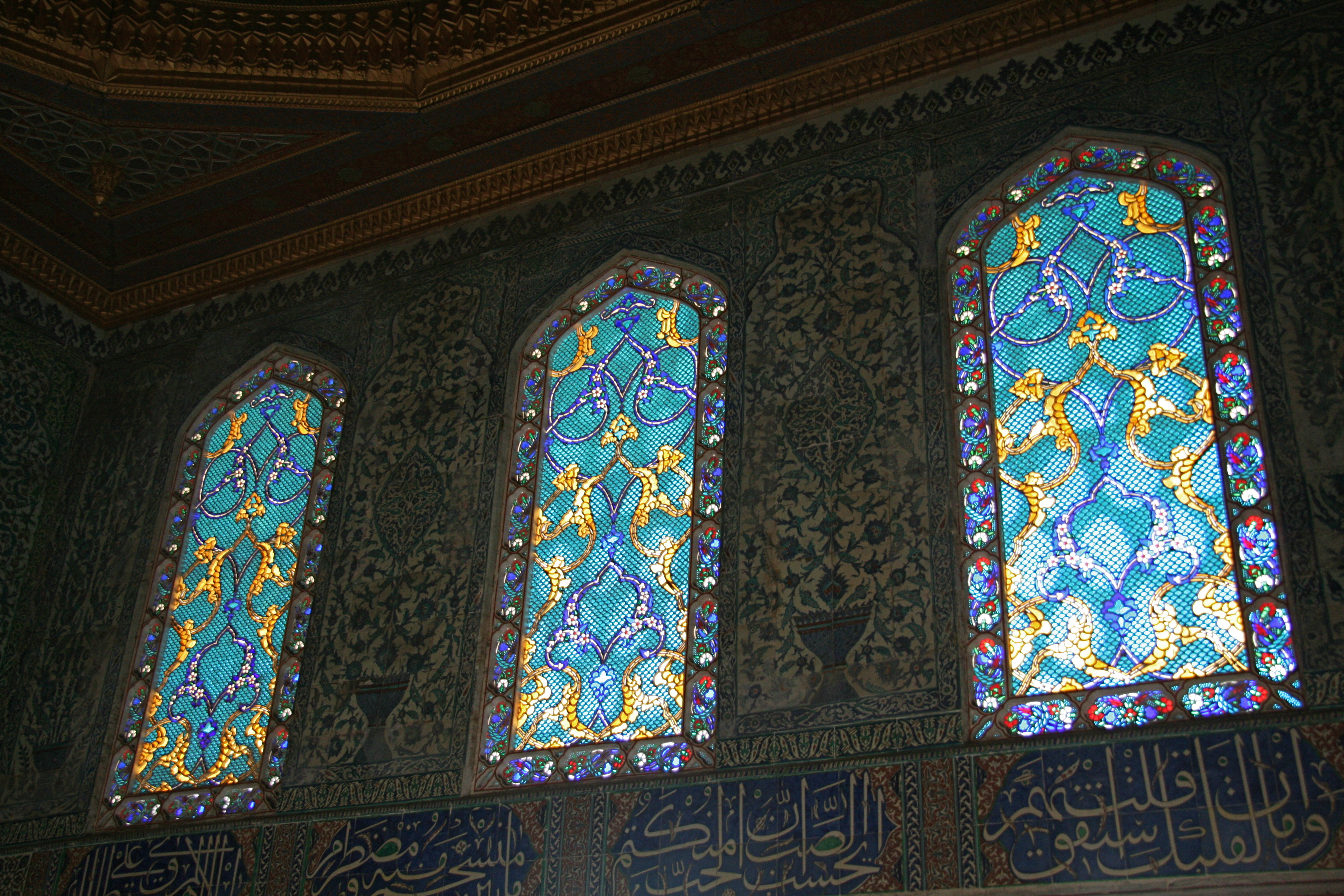 View of stain glass and walls in the Twin Kiosk in the Topkapı Palace in Istanbul